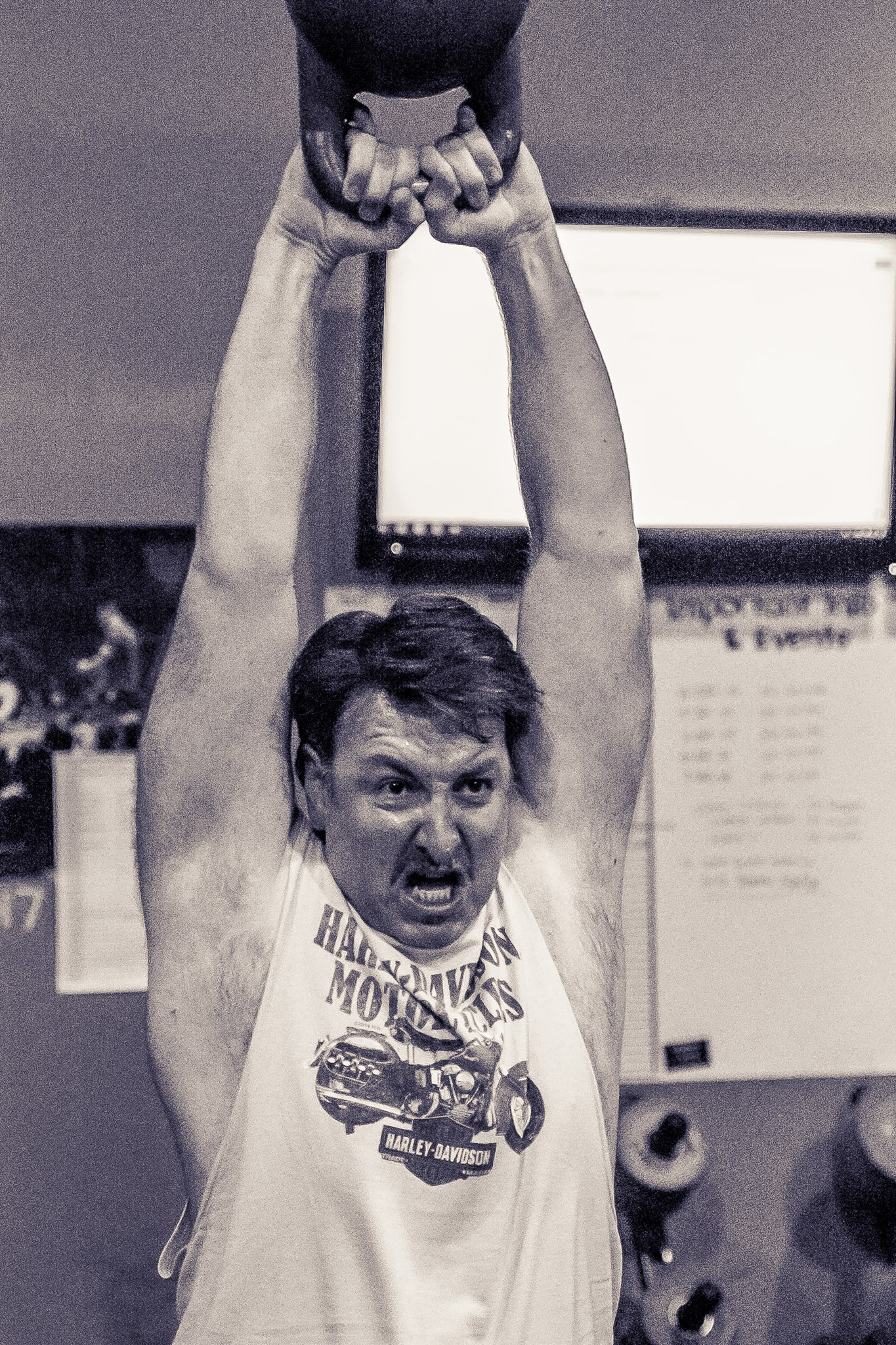 Maurice Novoa Ruiz Performing kettlebell swings during CrossFit